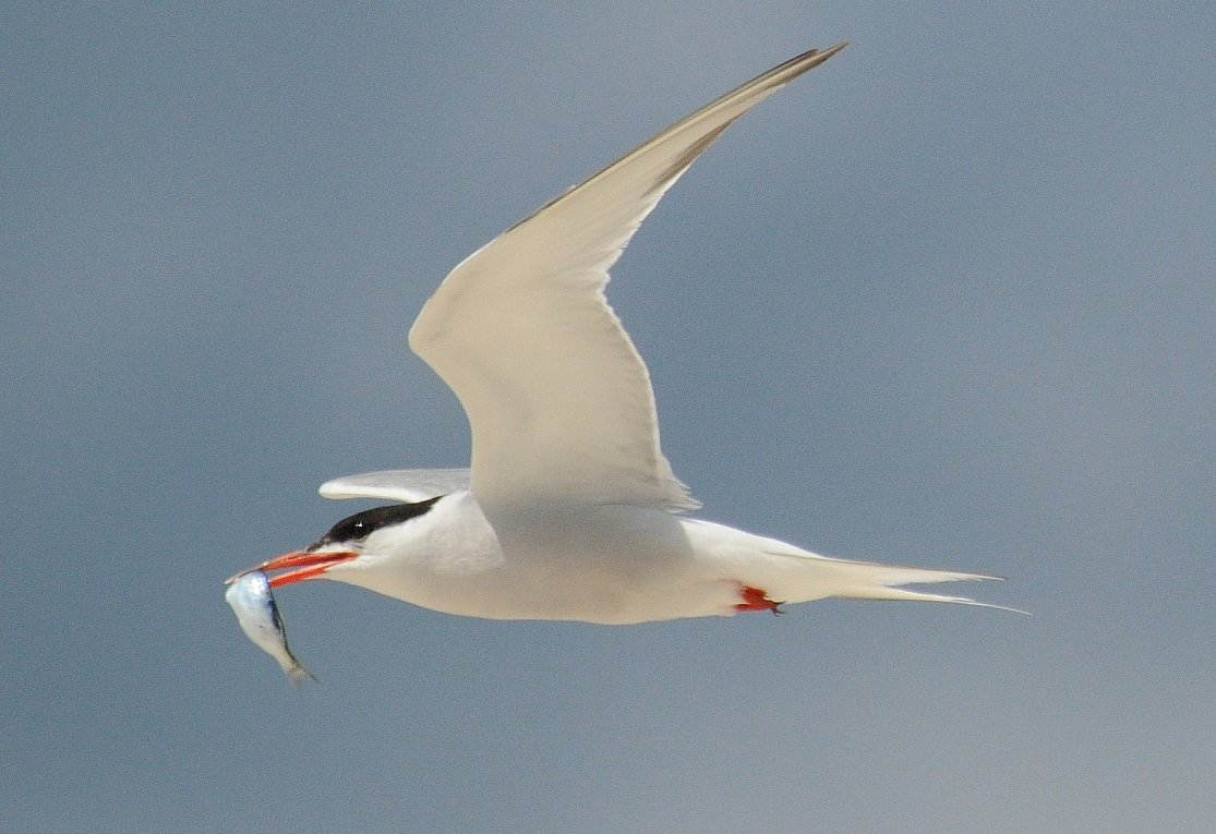 Common Tern flying at Fire Island, New York, USA with a fish in it mouth for its young.